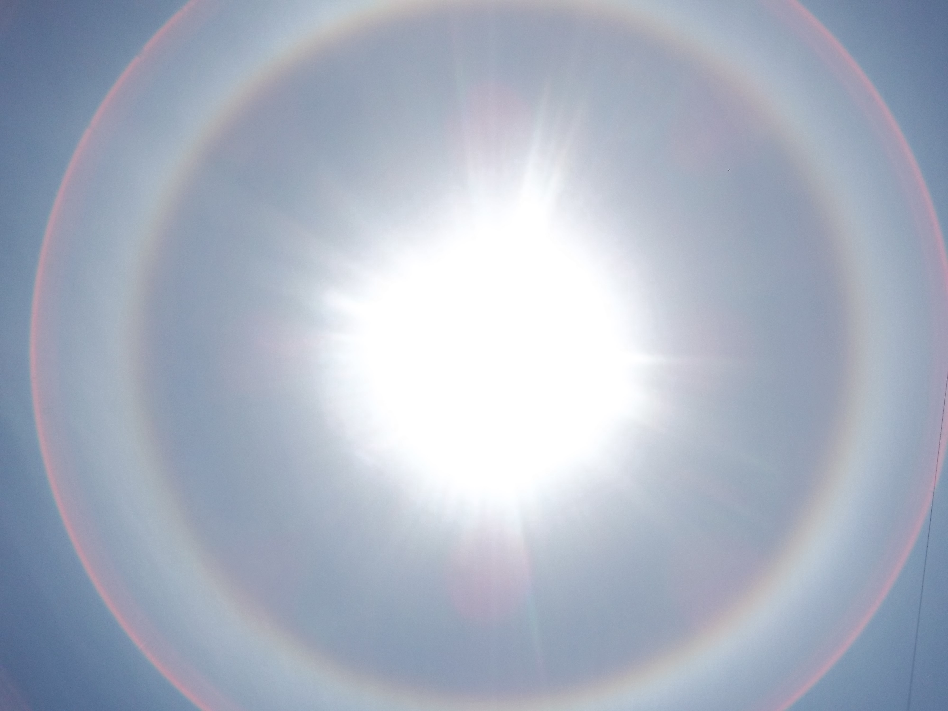 Sun Halo Photographer: Janice Marie Foote Location: Sacramento, CA